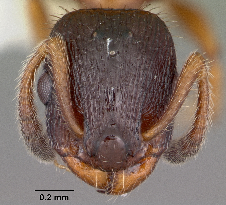 Head view of ant Leptothorax acervorum specimen casent0104846.